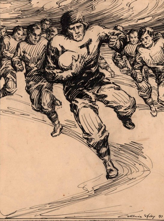 Sketch of a football player by American artist Catherine Wiley, from a University of Tennessee yearbook